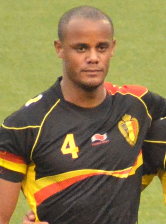 Taken at FirstEnergy Stadium Home of the Cleveland Browns